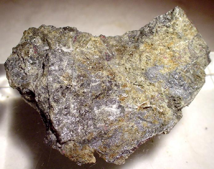 Mercury Locality: Socrates Mine, Sonoma County, California, USA (Locality at ) An extremely rich ore specimen liberally covered with shiny bubbles or drops of native mercury (quicksilver) and tiny streaks of cinnabar. Mercury is the only recognised mineral that is found as a liquid at room temperature. Cinnabar alters to native mercury in the oxidized zone of deposits. Native mercury is also quite rare. This specimen is from an uncommon California locality, the Socrates Mine. VERY RARE IN SPECIMEN FORM and a VERY difficult element to obtain in its pure form for an elements suite in a collection! 5.5 x 4.5 x 2.5 cm